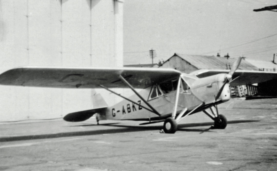 DH.80A Puss Moth G-ABKZ of East Anglian Flying Services at Manchester (Ringway) Airport